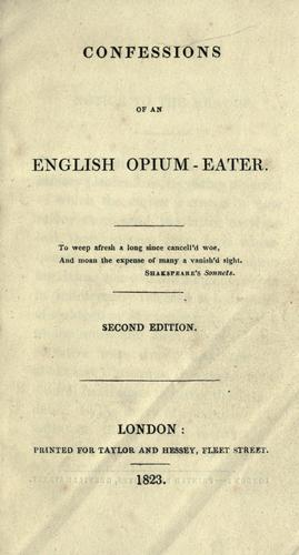 Front cover of the second edition of Thomas De Quincey's book "Confessions of an English Opium-Eater" (London, 1823)